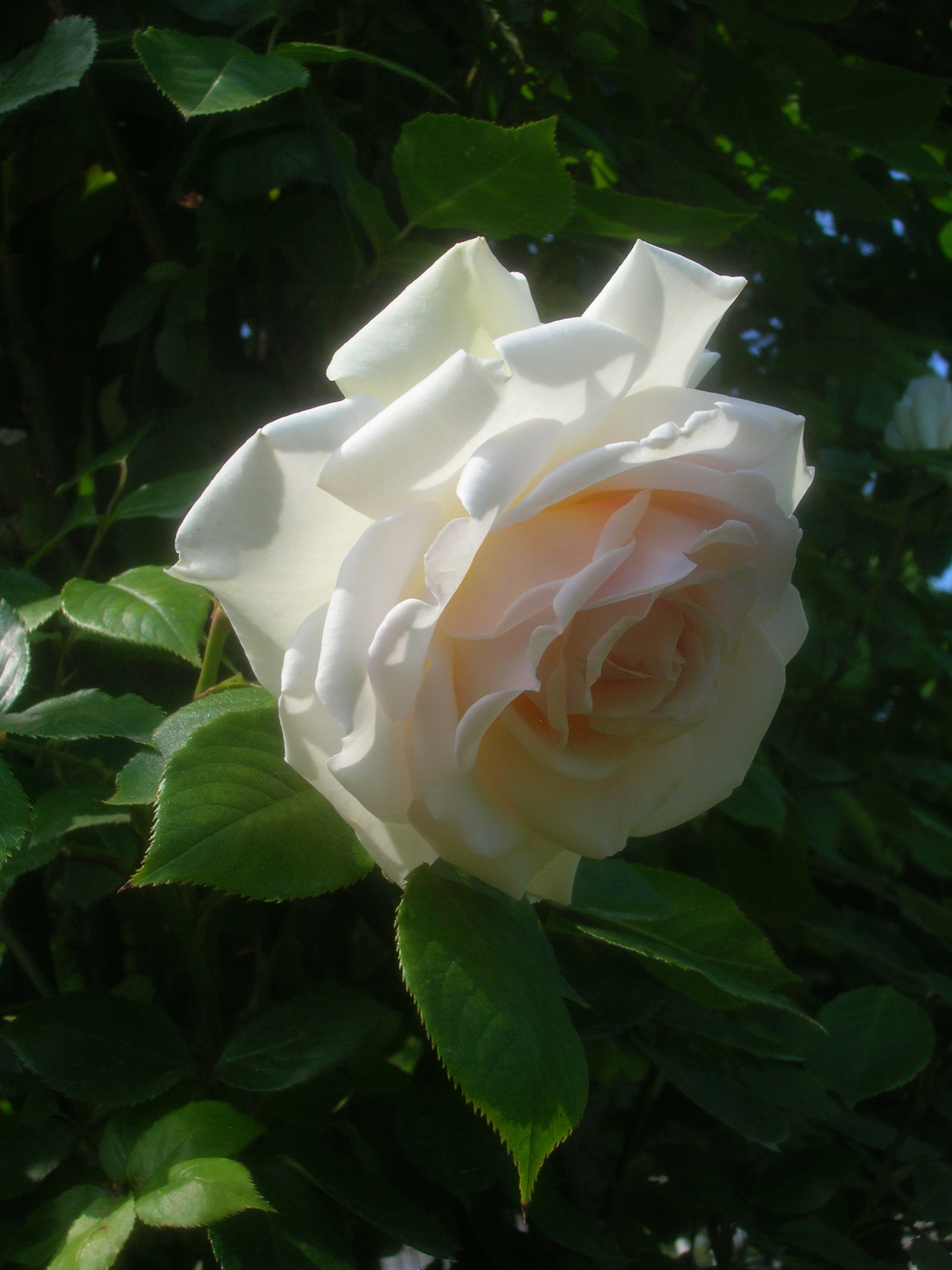 Rosa 'Schwanensee' in the Volksgarten in Vienna. Identified by sign.